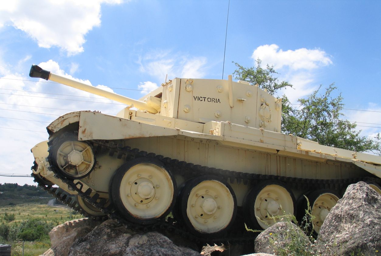 Cruiser Tank Mk VIII Cromwell at WWII Memorial, Yad la-Shiryon Museum, Israel.